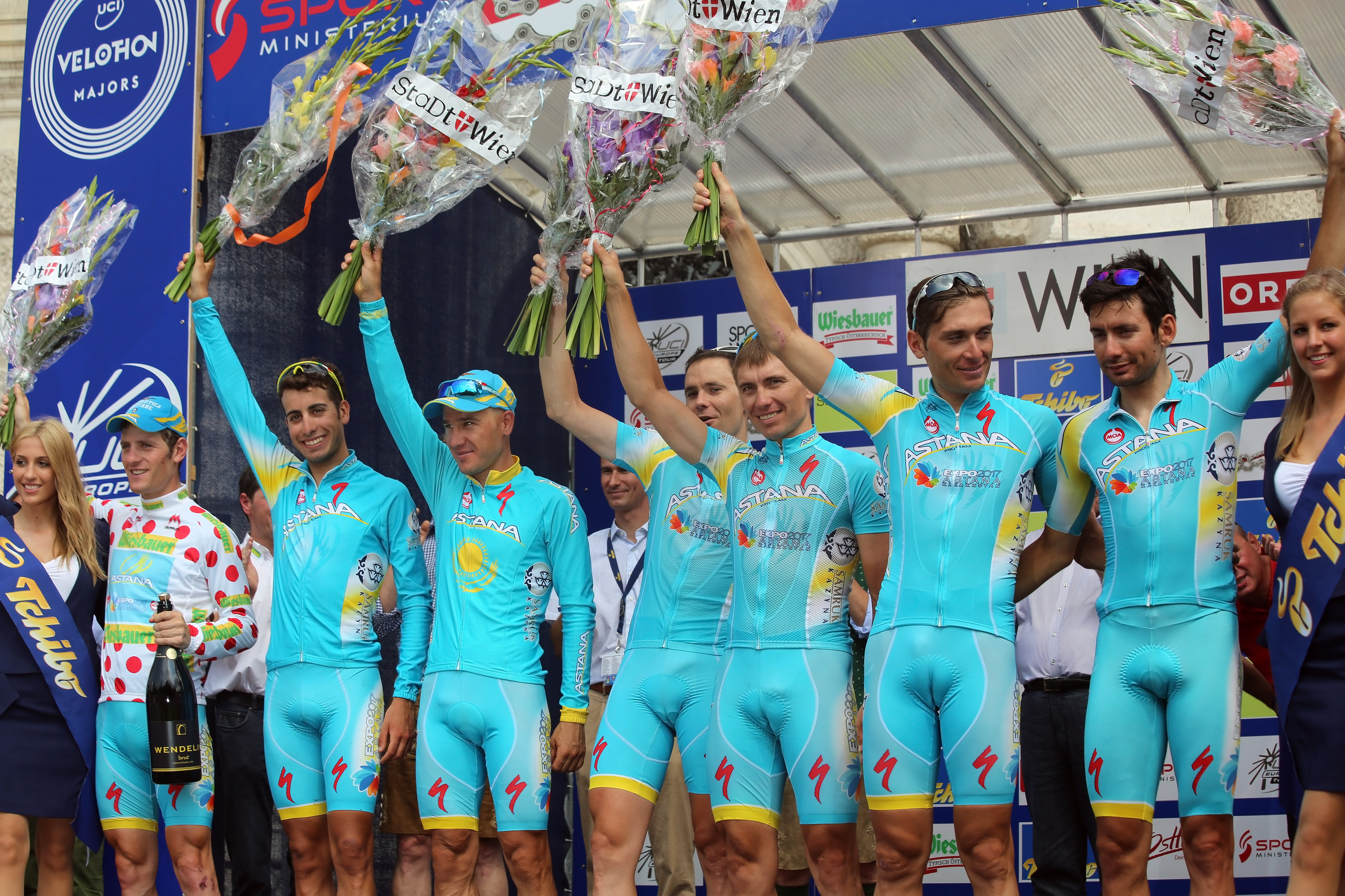 Astana Pro Team, the best team of the tour, at the award ceremony of the Tour of Austria in Vienna, Austria.